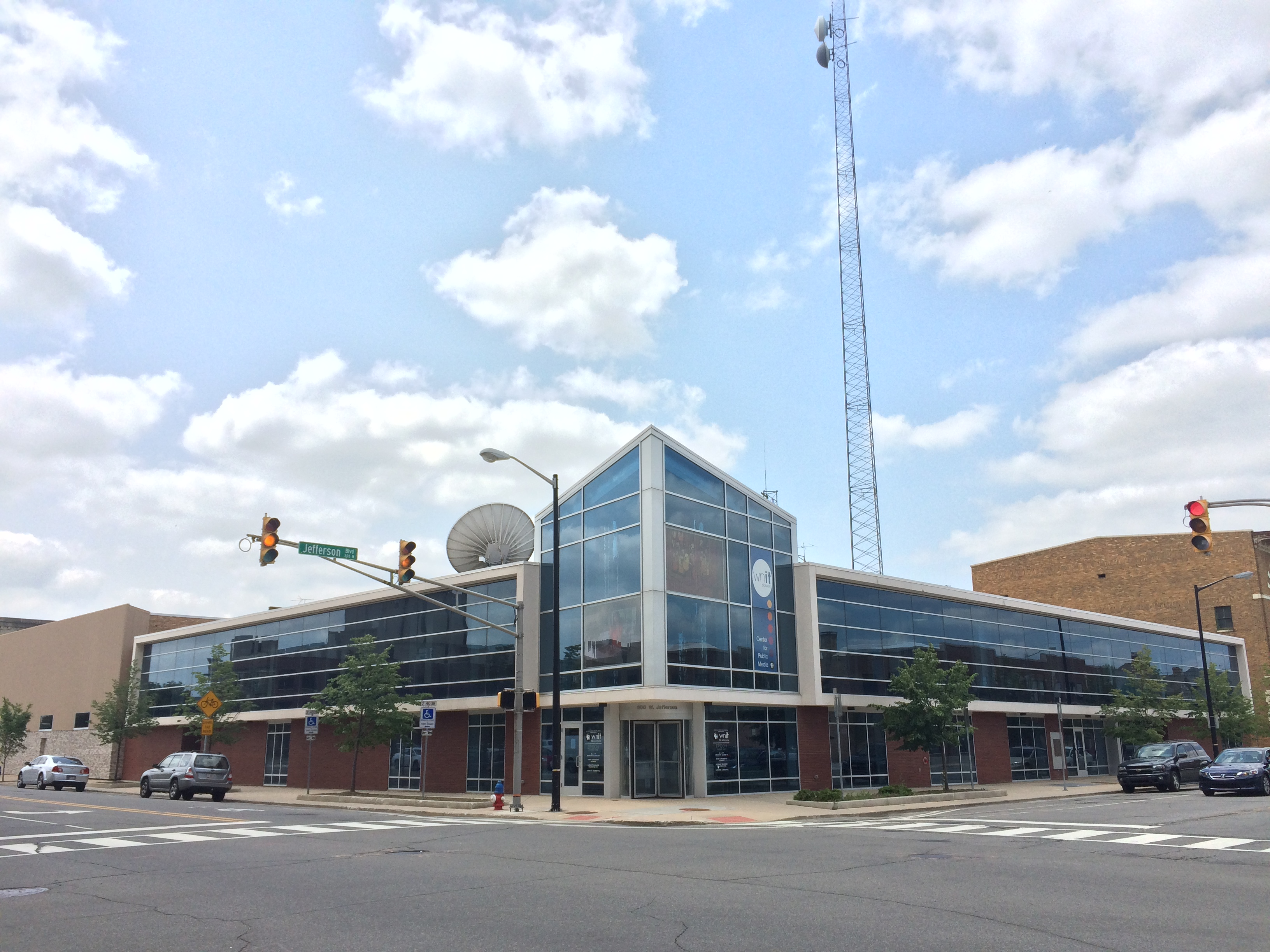 The WNIT Television Center for Public Media, which operates the Public Broadcasting Service for the South Bend area, located in downtown South Bend, Indiana. Photo taken on 2 July 2015.